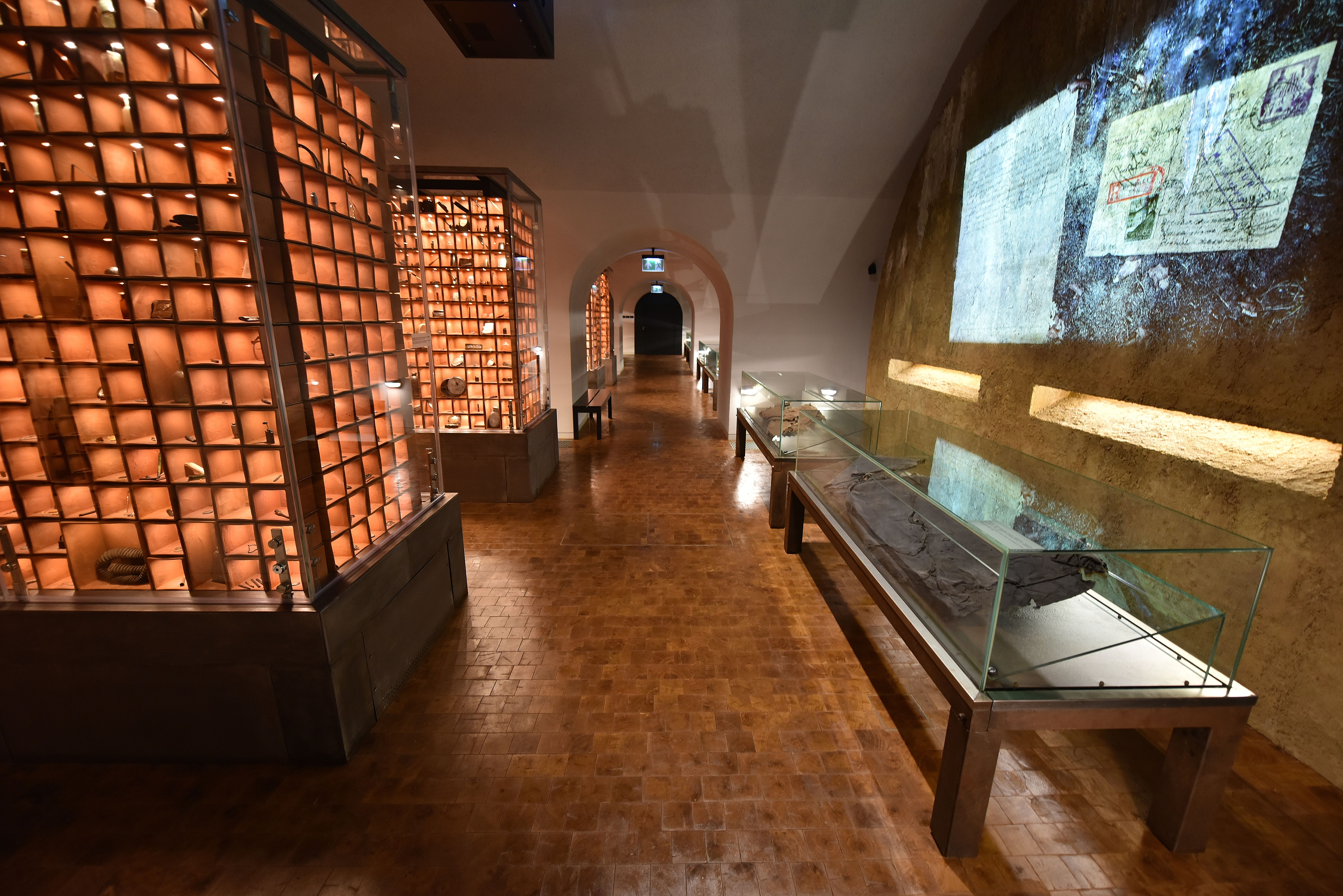 Katyń Museum in Warsaw